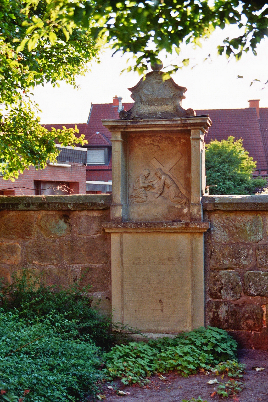 Station of the Cross beside the Roman Catholic St.-Georg-Kirche (Saint George Church) in Saerbeck, Kreis Steinfurt, North Rhine-Westphalia, Germany.